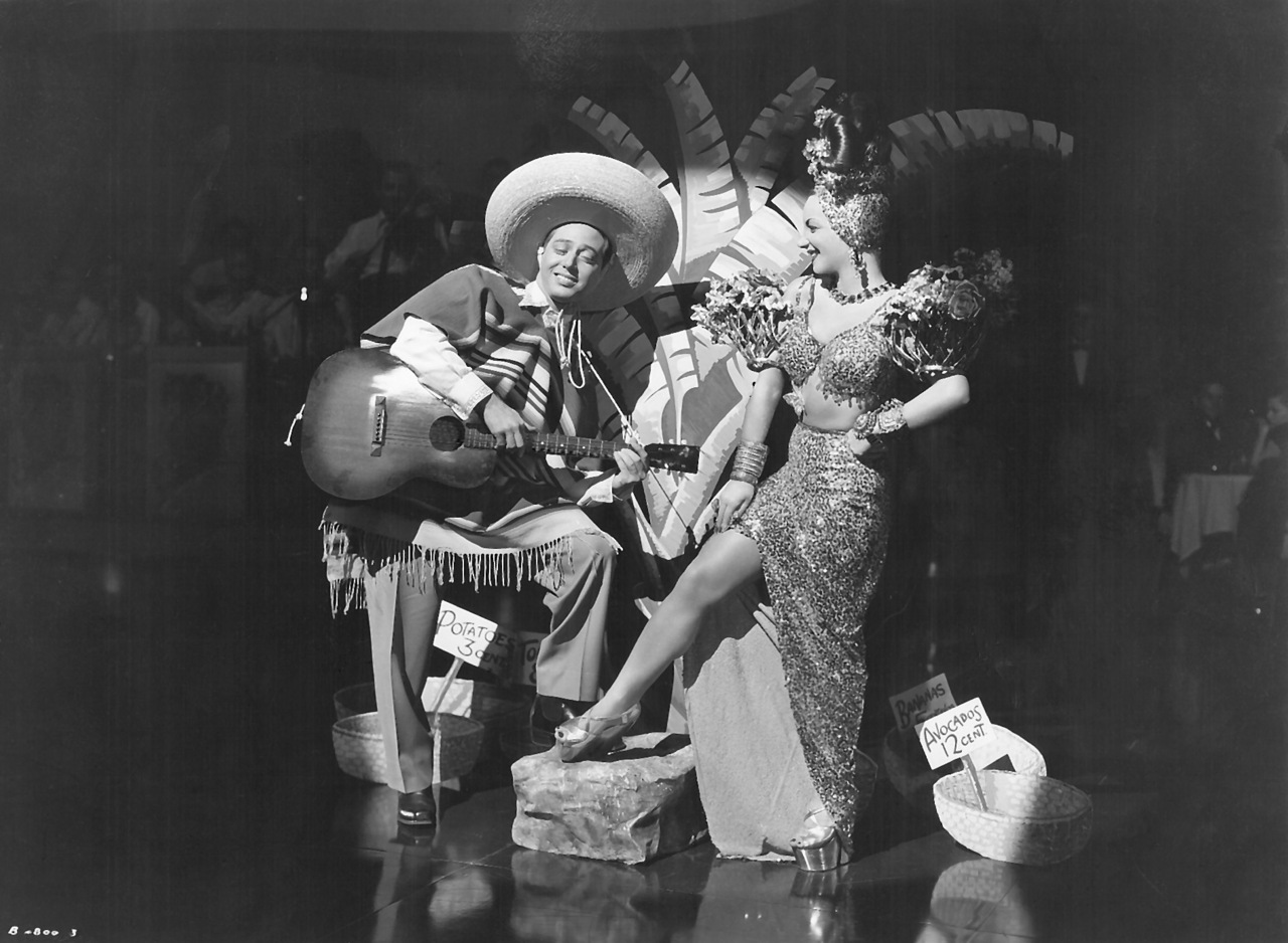 Promotional picture for the movie Copacabana (1947) with singers Andy Russell and Carmen Miranda.